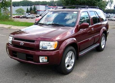 2001 Infiniti QX4 Photographed in Danbury, CT.